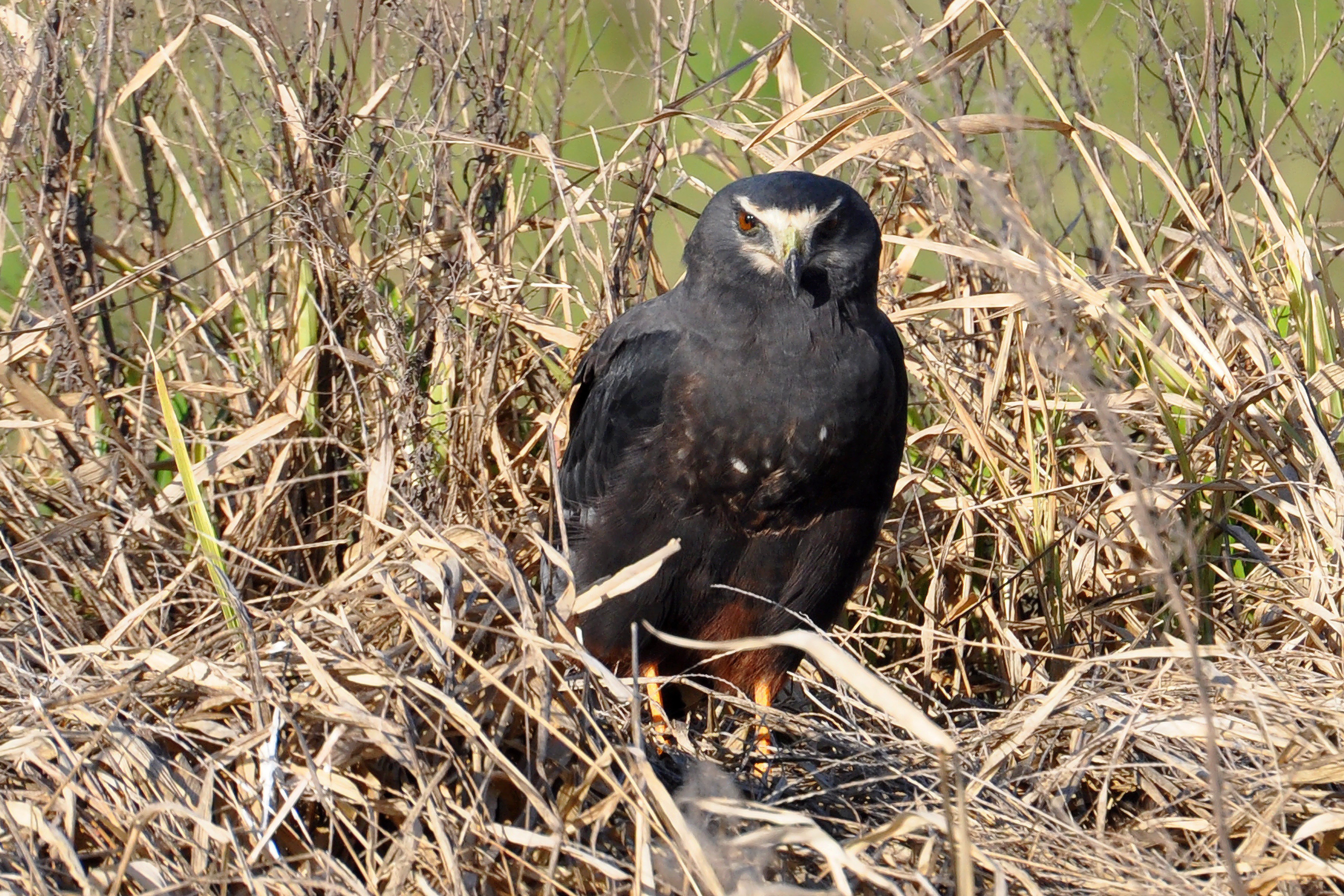 Female Long-winged harrier (Circus buffoni), dark morph. Photographed in Rio Grande do Sul, Brazil, May 2010.